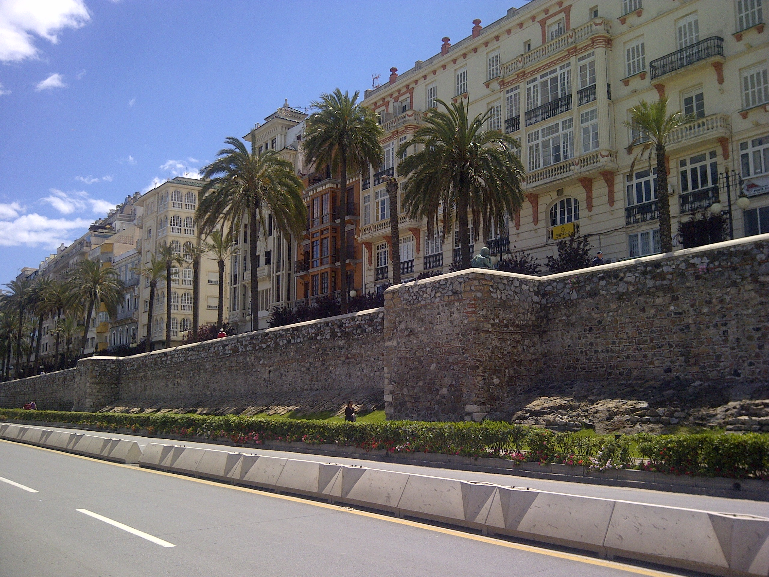 Avenida Juan Pablo II in Ceuta, Spain